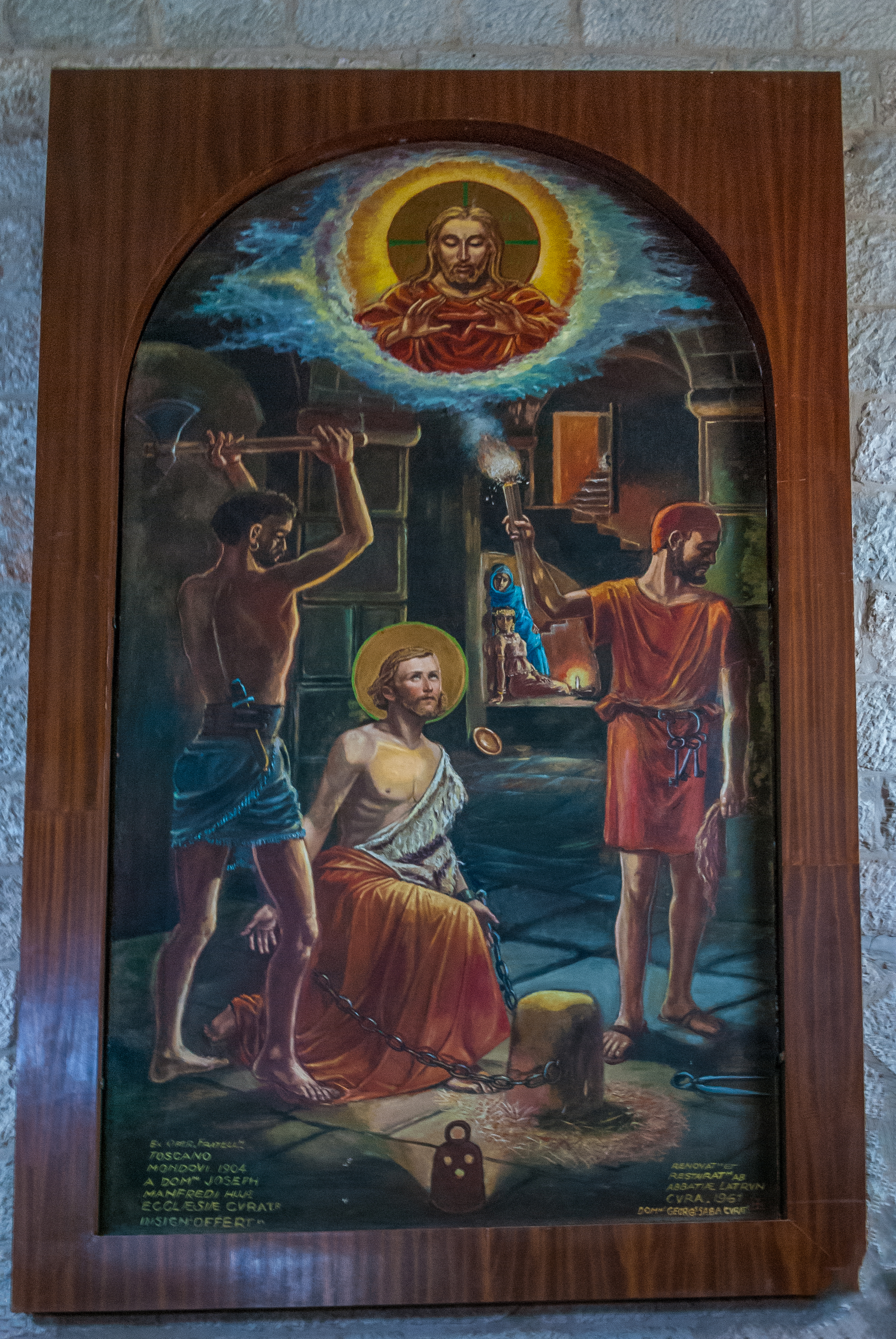 The Beheading of St John the Baptist in the St John Church in Madaba, Jordan